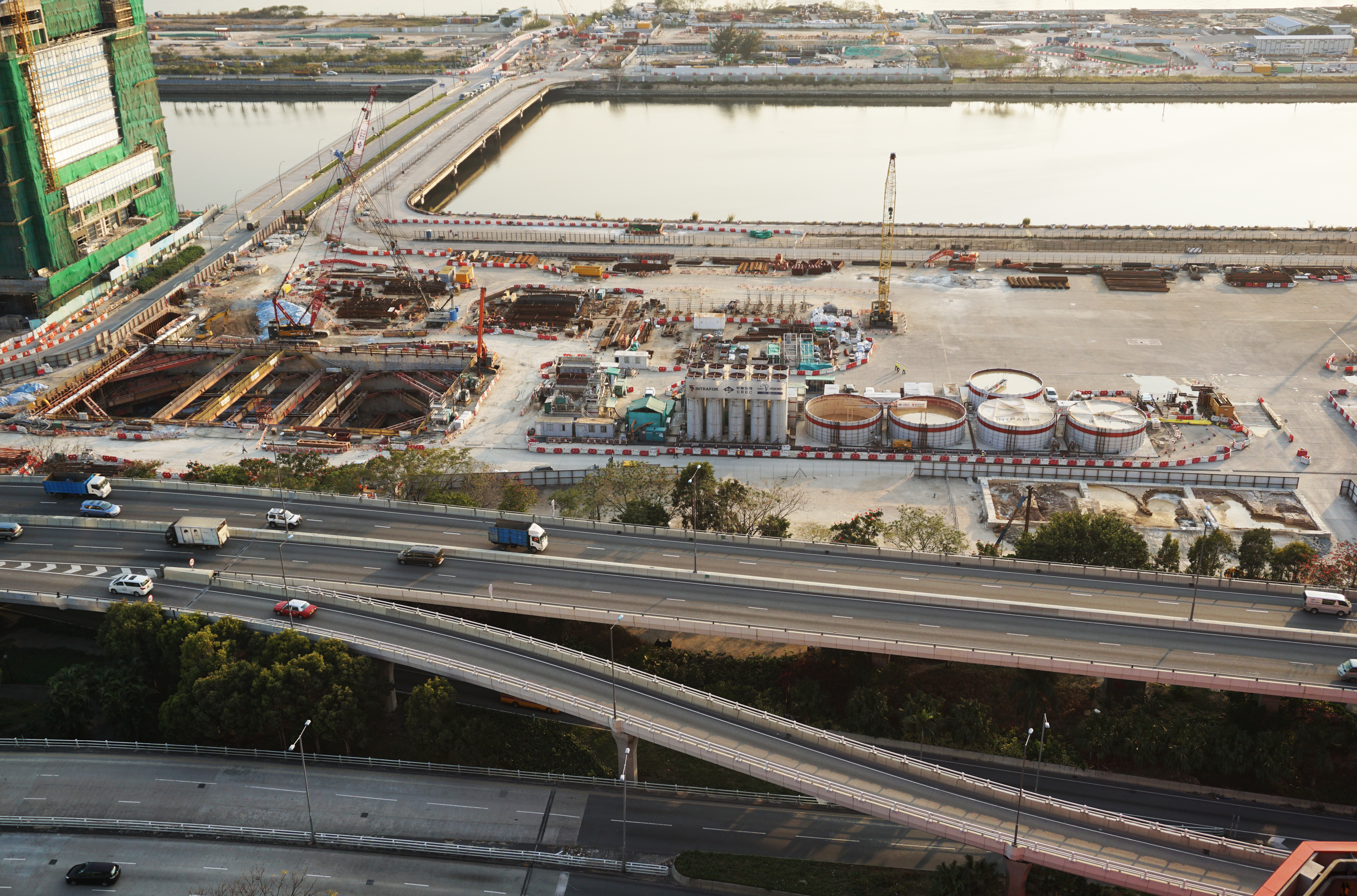 Kai Tak Hospital in Kowloon Bay, Hong Kong.